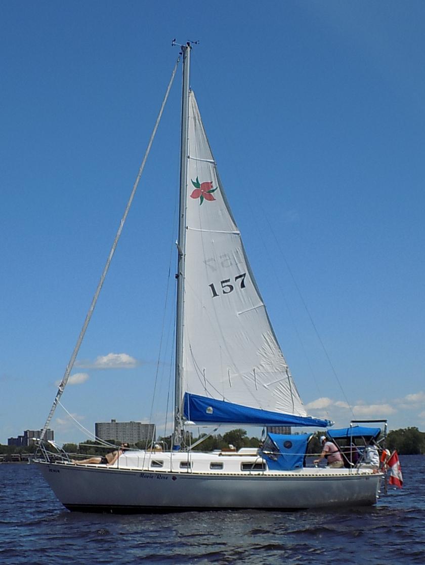 An Ontario 32 sailboat named Marie Rose.